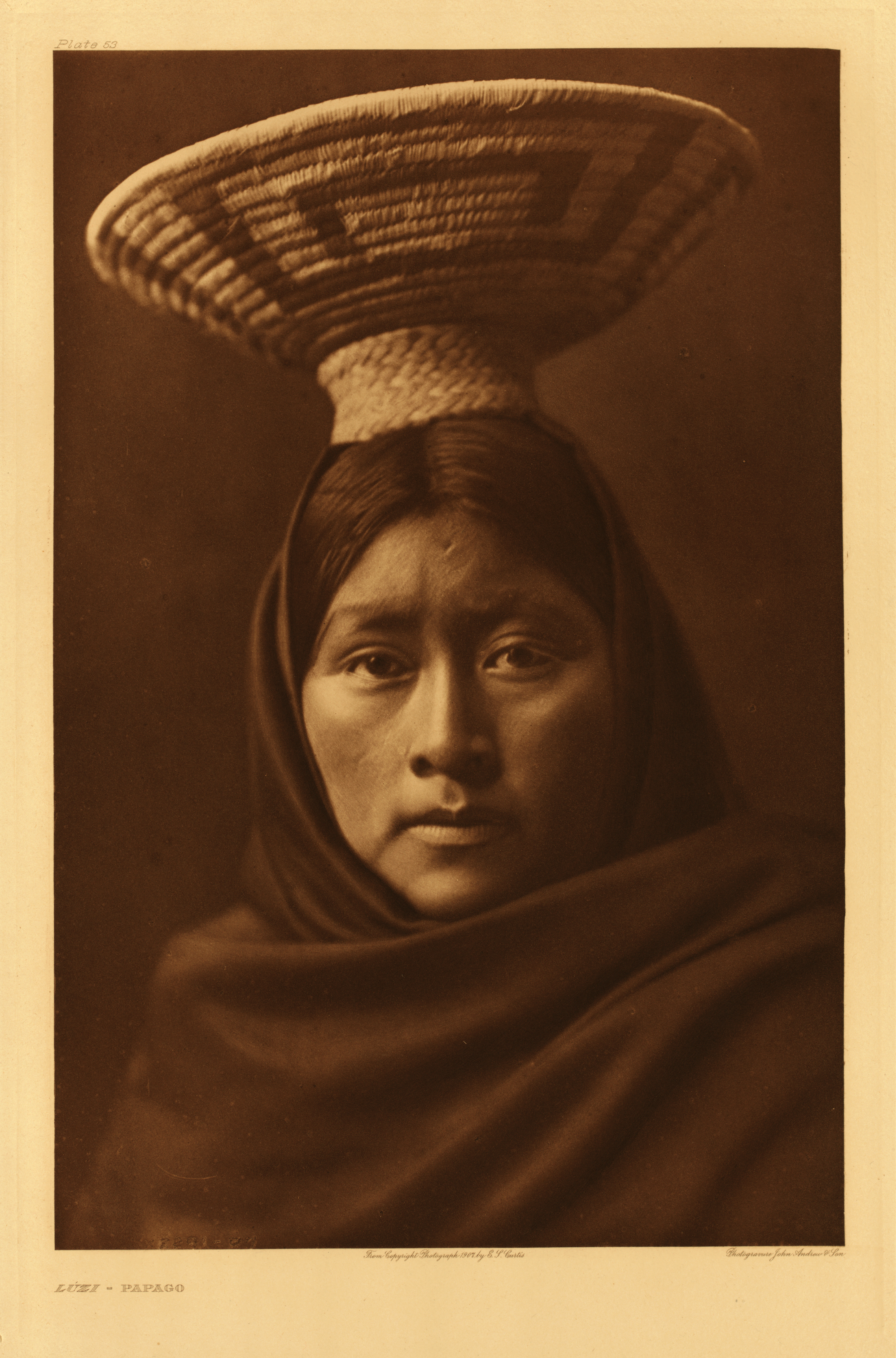 Luzi - Papago (The North American Indian; v.02) CREATOR Curtis, Edward S., 1868-1952. SUMMARY Description by Edward S. Curtis: The Papago women always carry their burdens on, or supported from, their heads. When the burden - be it a basket, pottery, or a box - has a flat or a rounded bottom, the ring of the woven yucca is placed on the head in order to give the load a firm position for carrying, and to relieve the bearer of pressure. NOTES 1 photogravure : brown ink ; 45 x 30 cm. Original photogravure produced in Boston by John Andrew & Son, c1907. Original source: The Pima. The Papago. The Qahatika. The Mohave. The Yuma. The Maricopa. The Walapai. The Havasupai. The Apache-Mohave, or Yavapai [portfolio] ; plate no. 53 Seattle : E.S. Curtis, 1908.